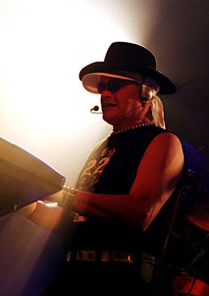 Michael Kocáb playing keyboard during concert in Opava